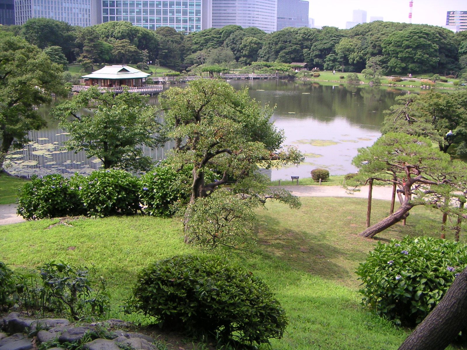 "Shioiri-no-ike" (pond of incoming tide) in Hama-rikyū Gardens